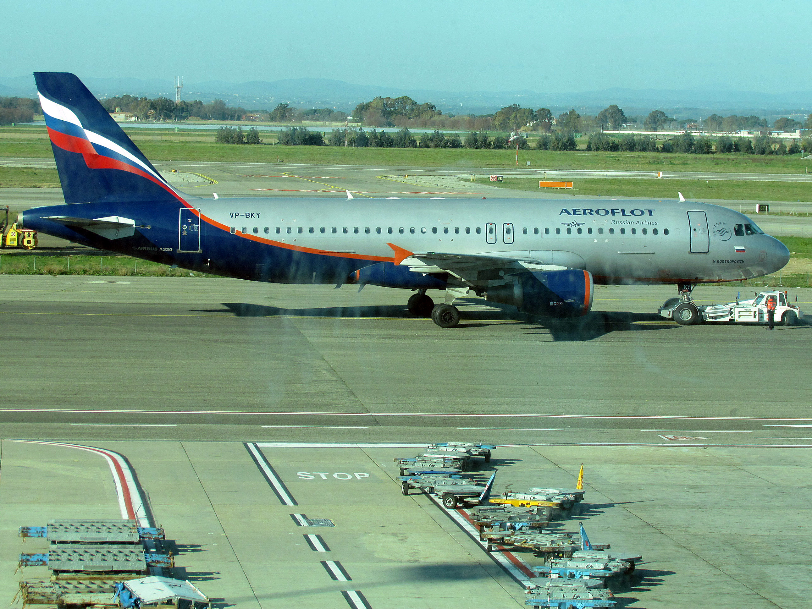 A Aeroflot Airbus A 320 taxing at Leonardo da Vinci – Fiumicino Airport